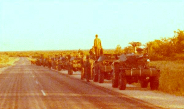 Eland armoured cars of Regiment Windhoek en route from Grootfontein to Etale.